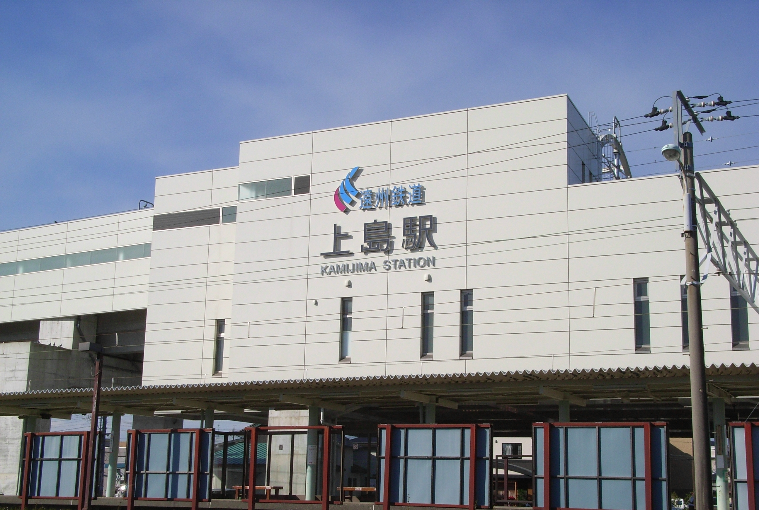 Kamijima Station